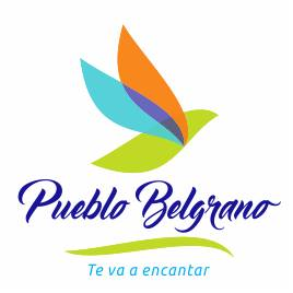 Pueblo General Belgrano.